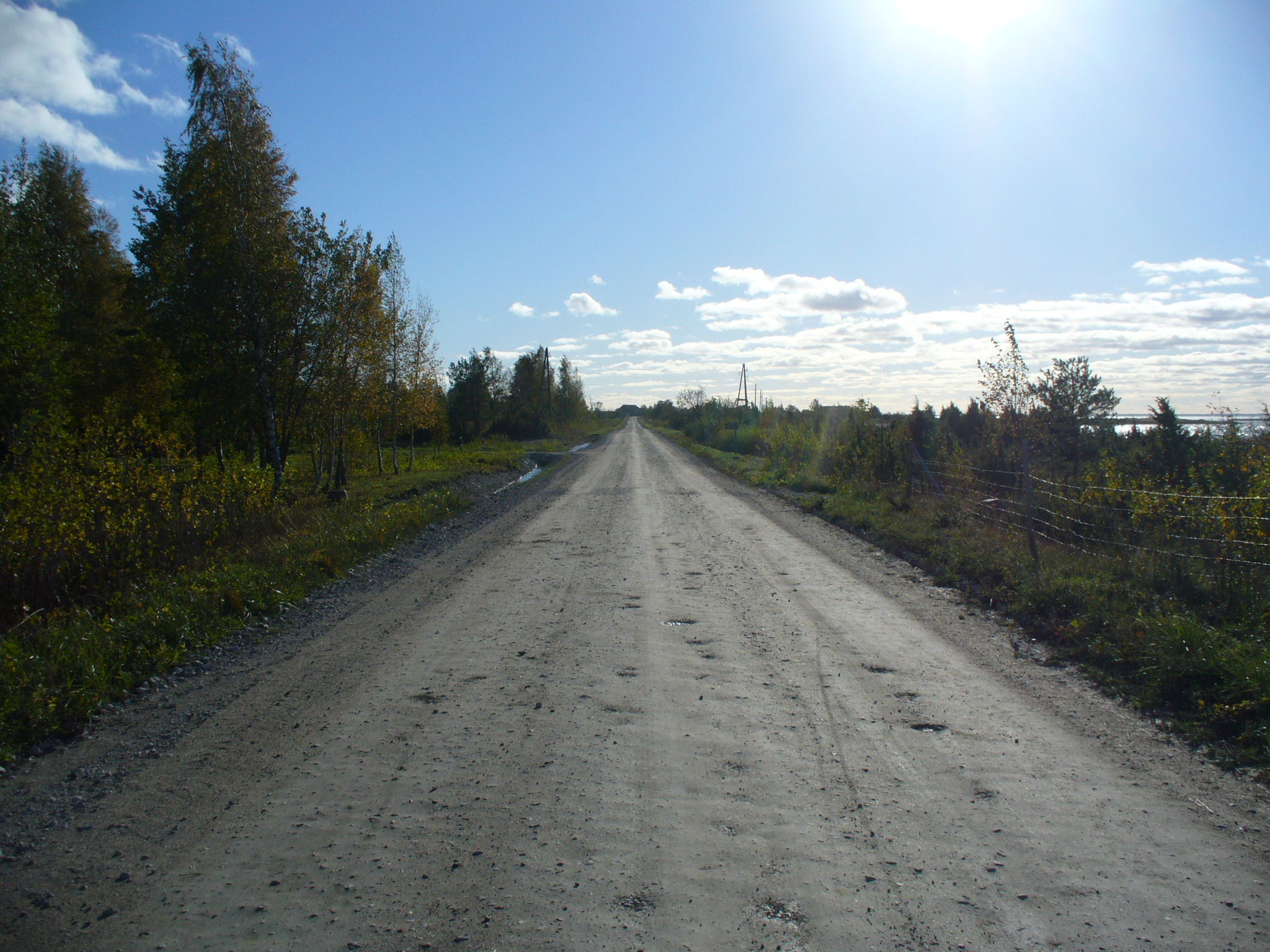 Road to Puise nina. Ridala parish, Lääne county, Estonia.